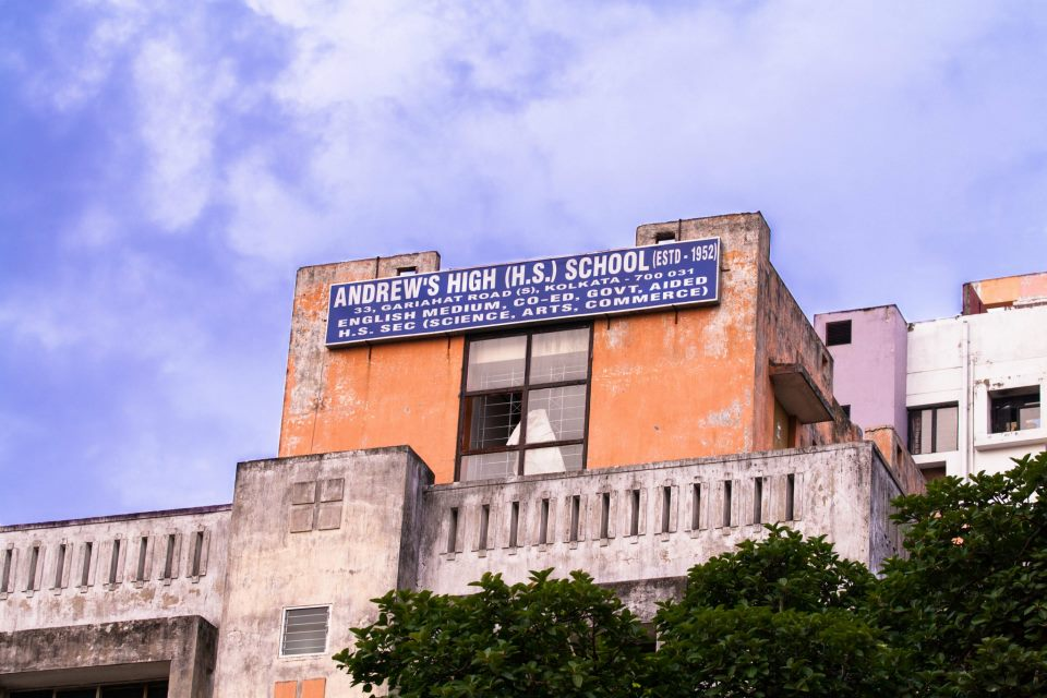 Andrews School Building at 33,Gariahat Road(S), Kolkata-31.